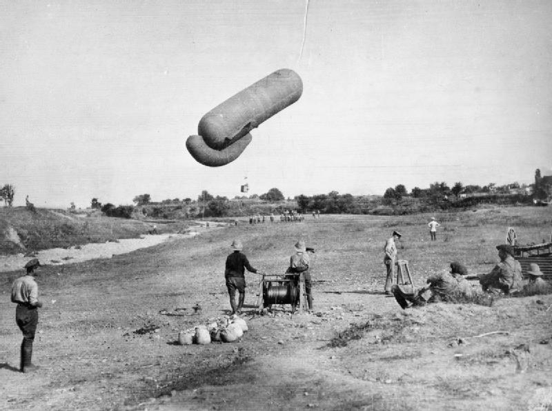 Title: BRITISH FORCES IN THE SALONIKA CAMPAIGN 1915-1918 Description: A kite balloon starting to ascend for observation duty in the Struma Valley.